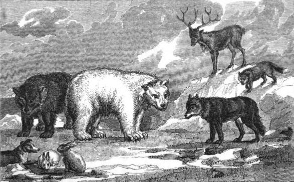 Illustration of arctic animals from Narrative of Discovery and Adventure in the Polar Regions (1830), by Sir John Lesley, Robert Jameson, and Hugh Murray.